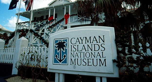 Cayman Islands museum, George Town, Grand Cayman, Cayman Islands.